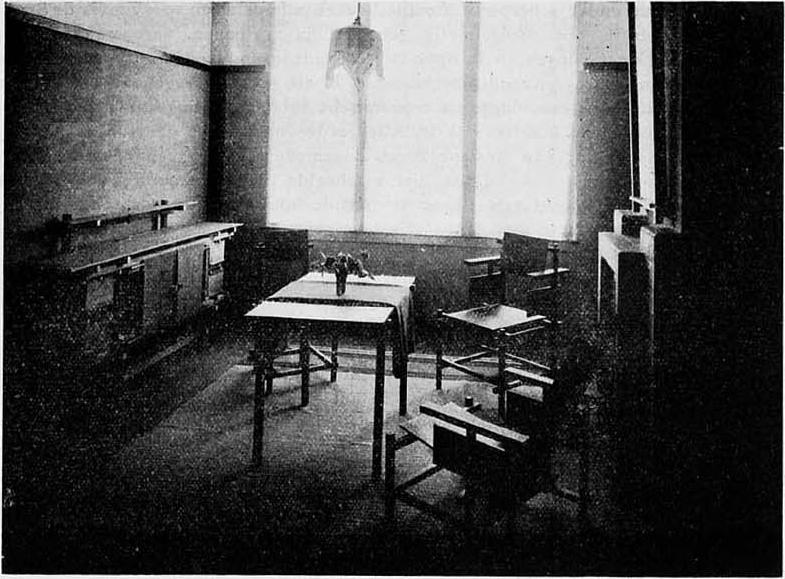 Model living room in a block of flats by J.J.P. Oud with furniture by Gerrit Rietveld. c 1920. From Bouwkundig Weekblad, 41e jaargang, nummer 37 (11 september 1920): p. 221.